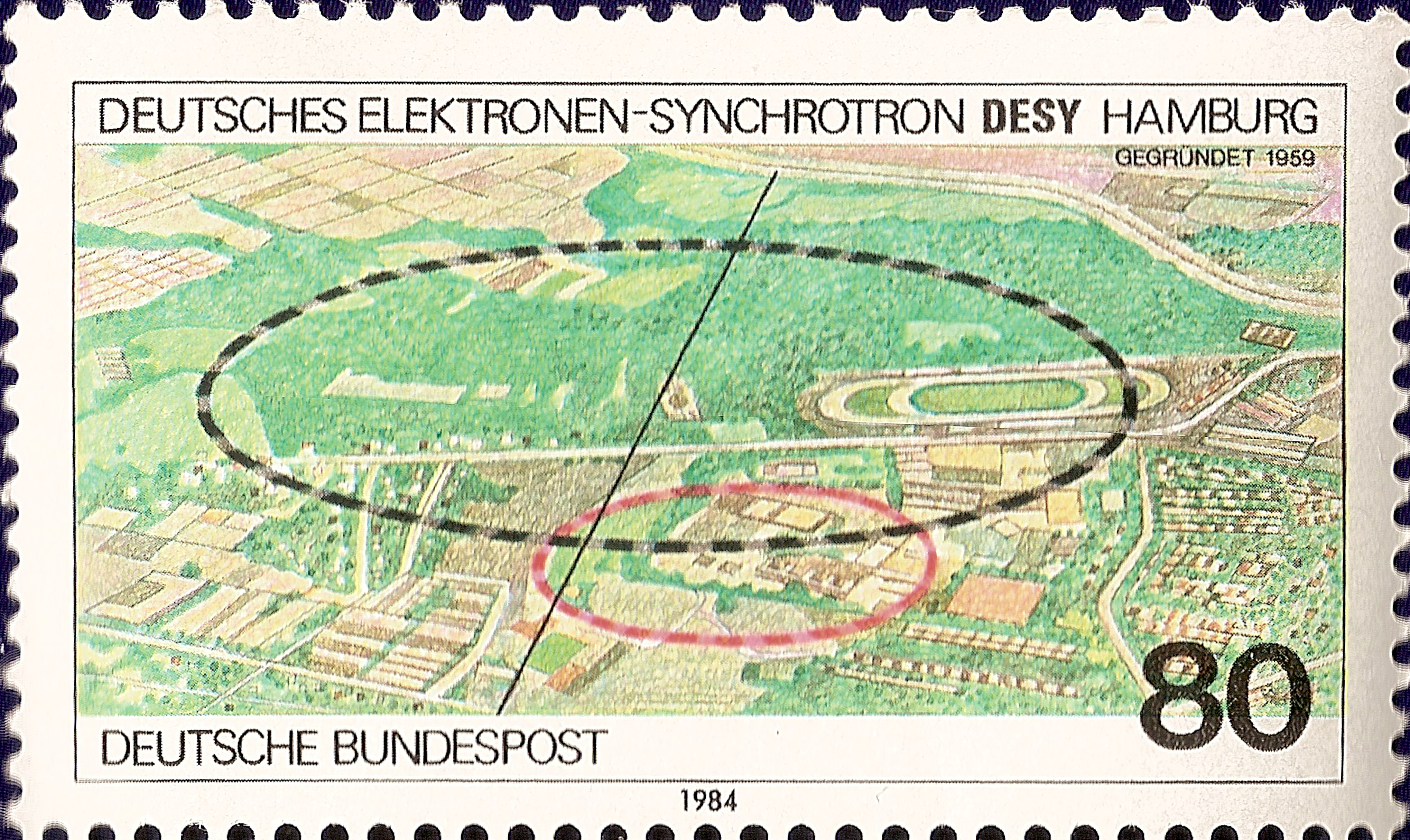 Stamp of Deutsche Post AG - DESY 25 anniversary